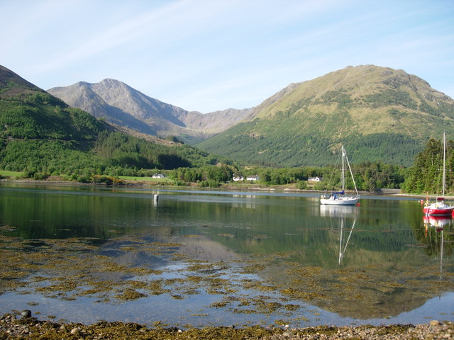 Mountains and Sea. Creag Ghorm (right of picture) and Sgorr Dhonuill viewed across Loch Leven.